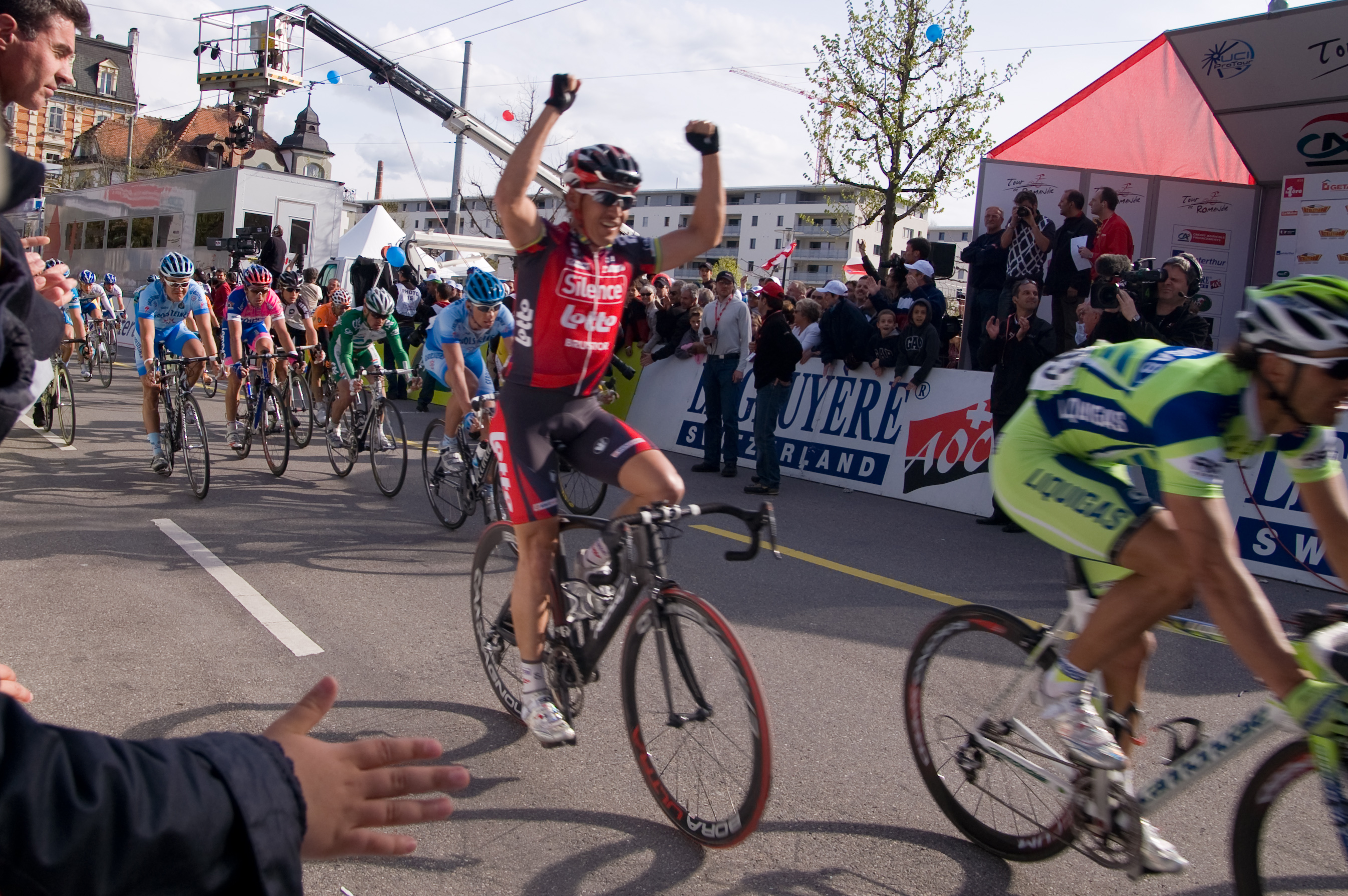 2nd stage of the Tour de Romandie 2008. Winner Robbie McEwen.